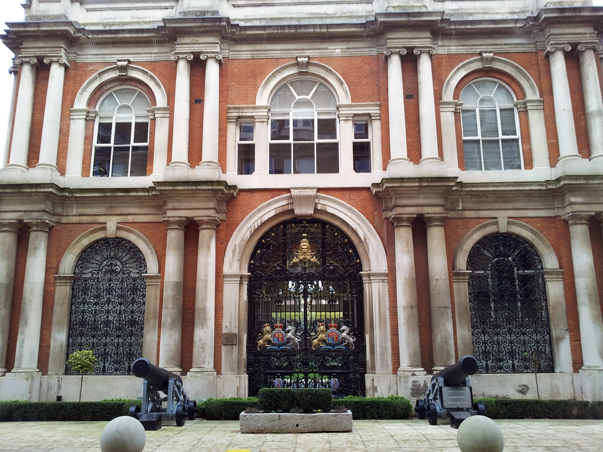 Front of the Royal Arsenal Shell Factory gateway, Arsenal Way, Woolwich, South East London, seen from the west. The cast iron grilles were designed by Charles Bailey in 1856 and cast by the Regent Canal Iron Works.